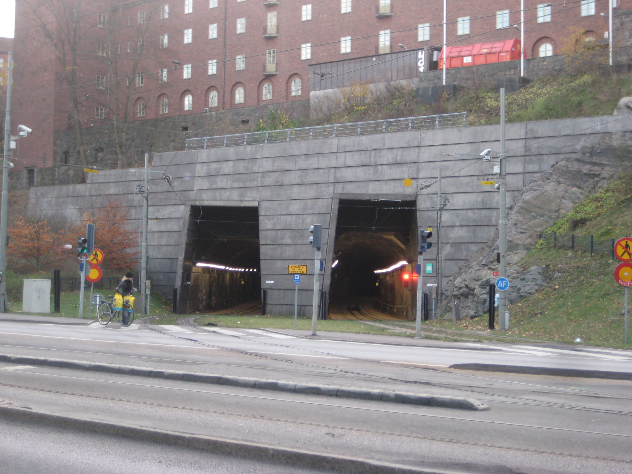 The Chalmers tunnel in Gothenburg, East entrance